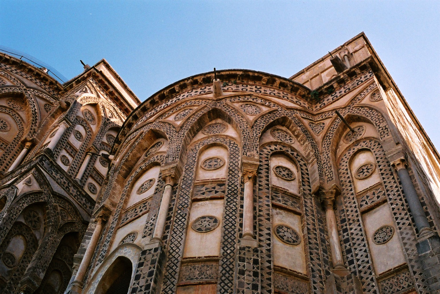 Cathedral of Monreale Arabesque ornaments at the rear apses